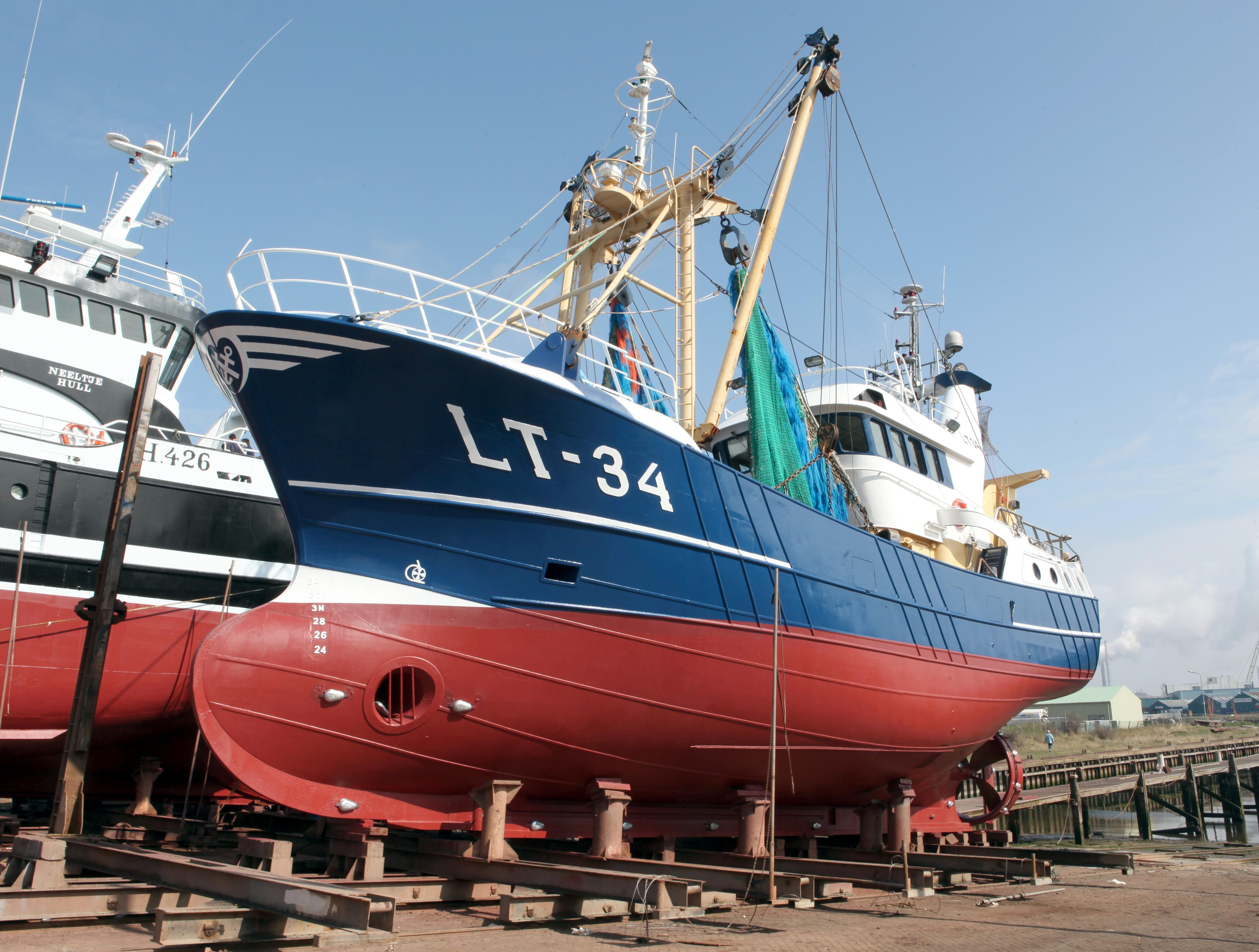 LT - 34 Jupiter Lowestoft